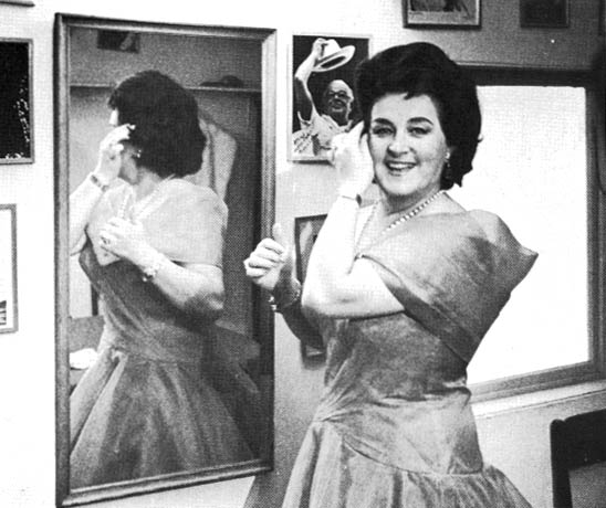 Swedish soprano Birgit Nilsson, behind the stage at Gröna Lund.